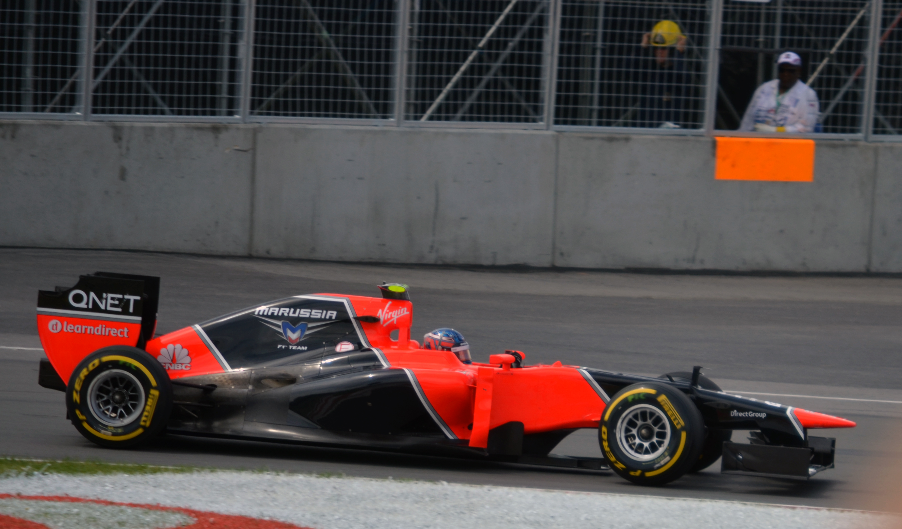 Charles Pic in the Marussia - Cosworth MR01 at L'Epingle hairpin corner of Circuit Gilles Villeneuve during second practice for the 2012 Canadian Grand Prix.